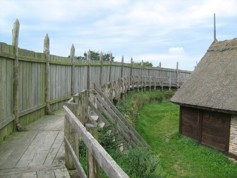 Middelaldercentret Bornholm